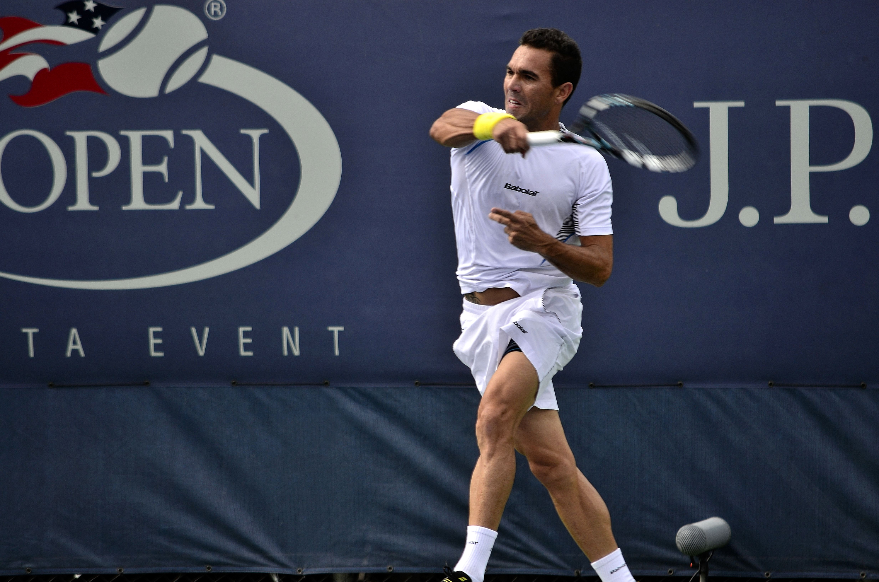 Queens, NY August 23, 1013 Donald Young (USA) def. Victor Estrella Burgos (DOM)